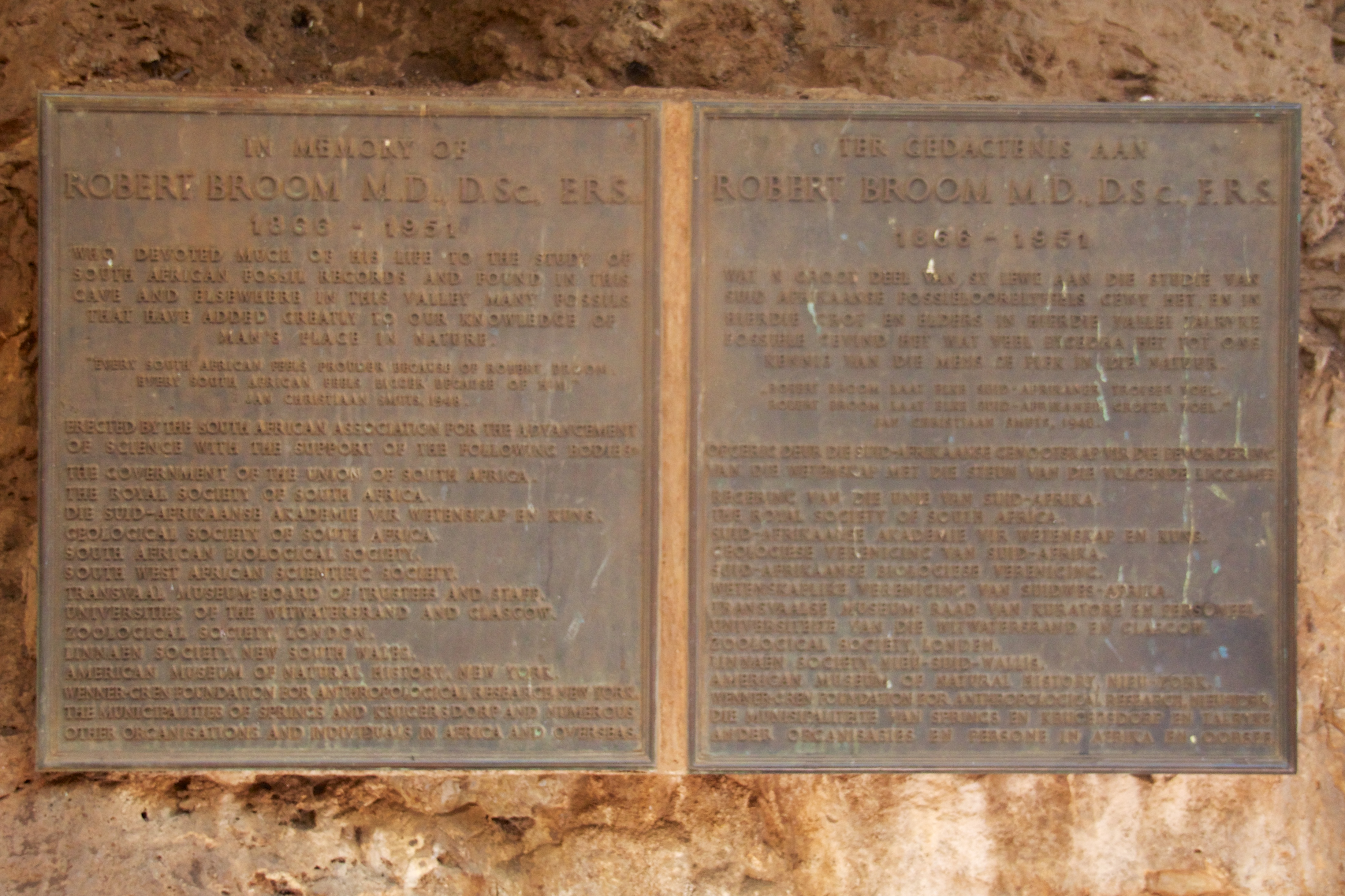 Memorial to Robert Broom (1866-1951) in the Sterkfontein caves.